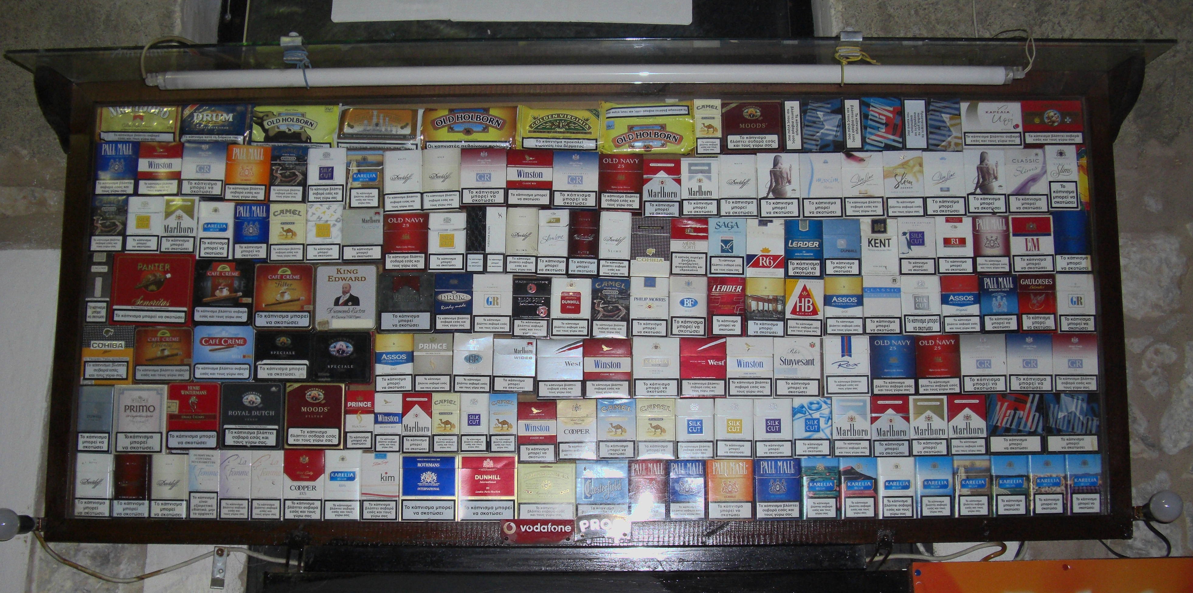 Cigarettes on display in front of a shop at Areopolis in Greece